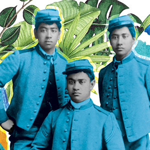 3 Hawaiin Princes who introduced surfing to the Continent USA, in their cadet uniforms from St Matthew's school in San_Mateo.